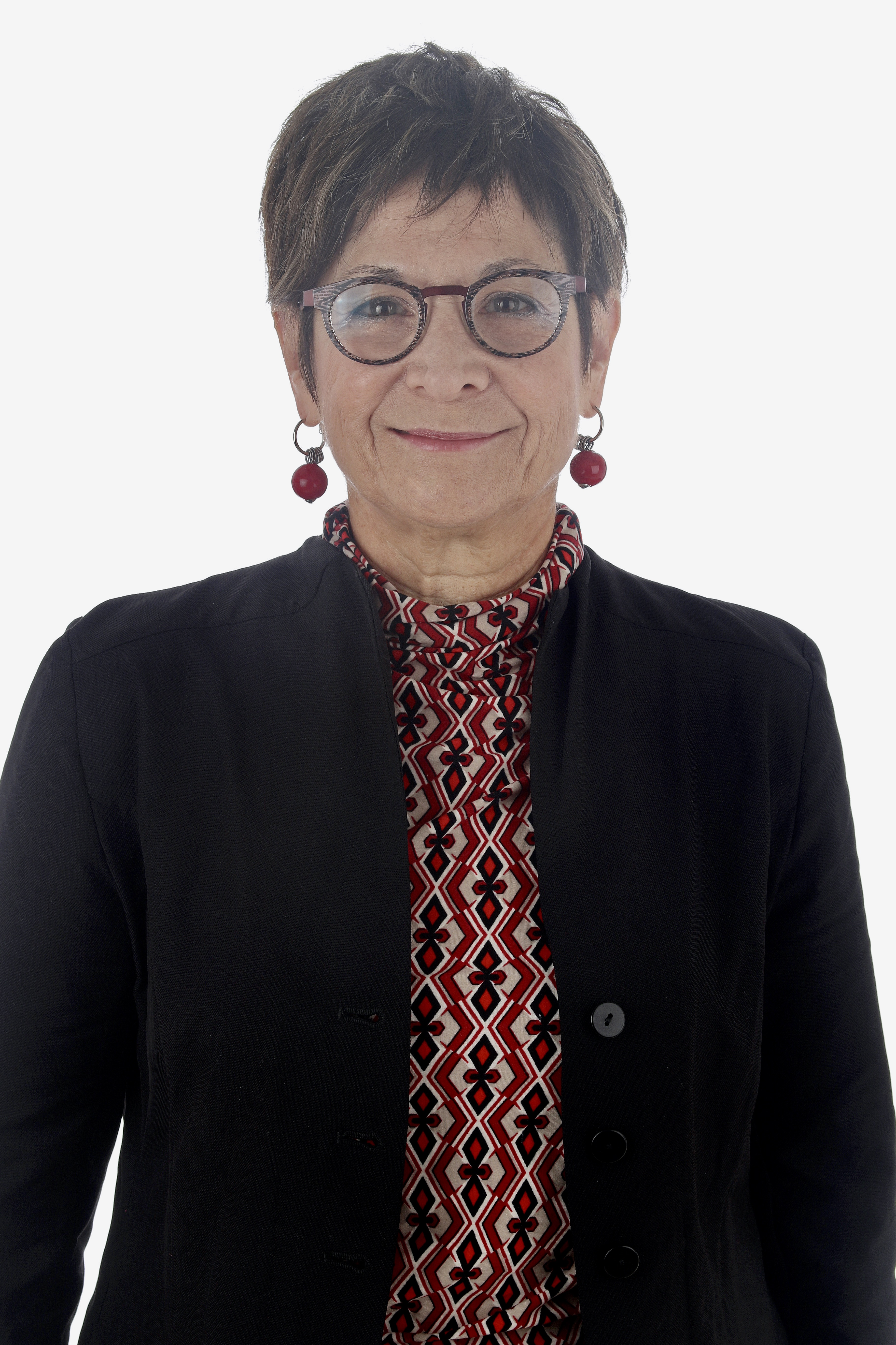 Linguists of sign languages